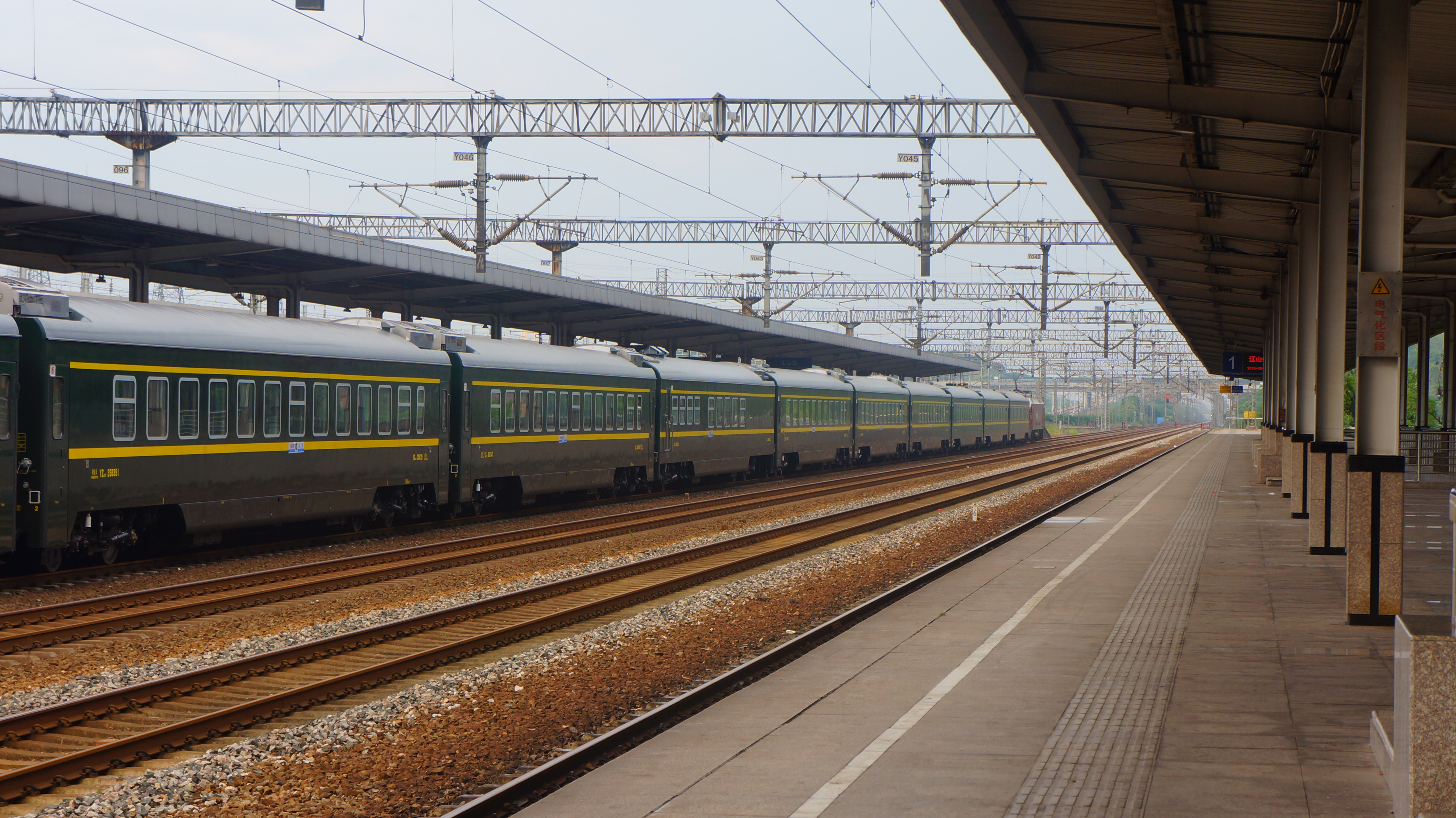 Platform 1 of Jiangshan Railway Station(Shanghai Direction)